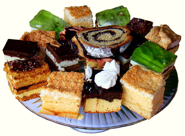 A selection of Polish cakes